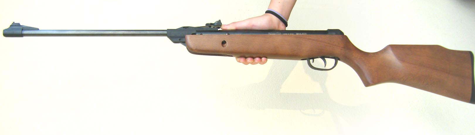 Air gun